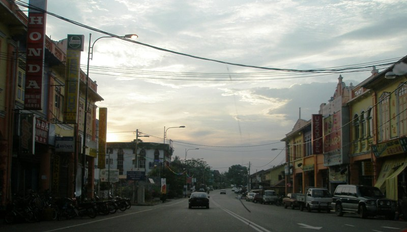 Title: Downtown Masjid Tanah Taken by: Adiput Date taken: 10 April 07